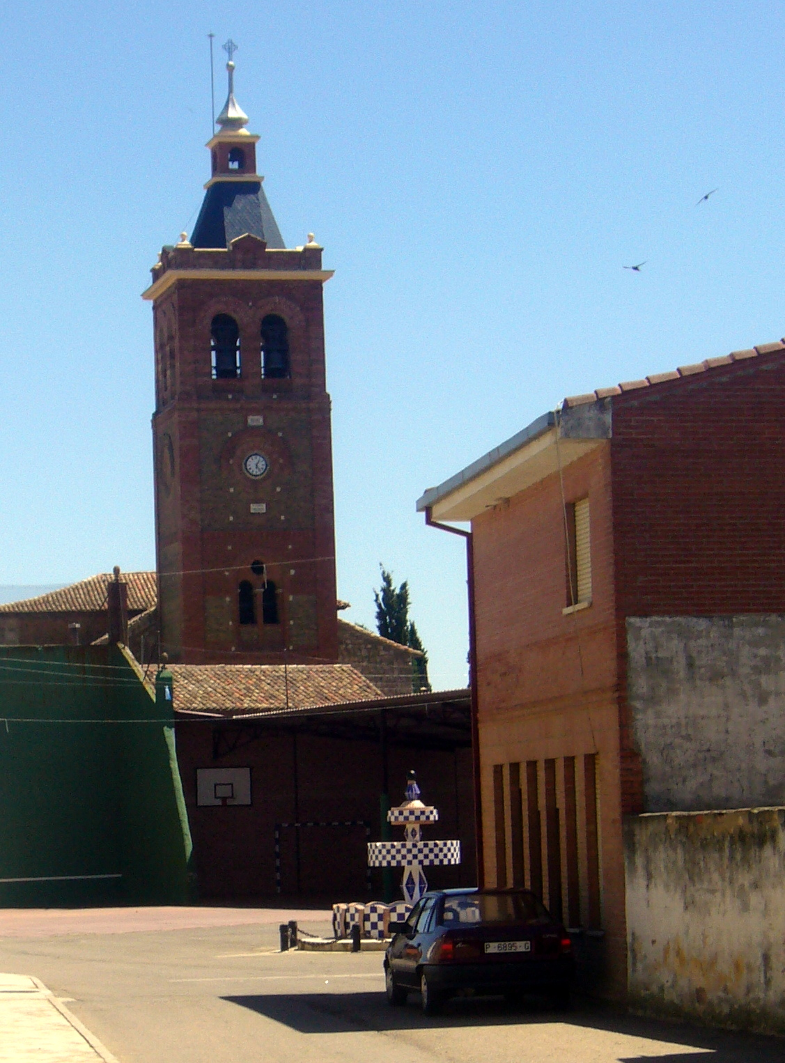 Church of Villaherreros, Palencia, Spain.